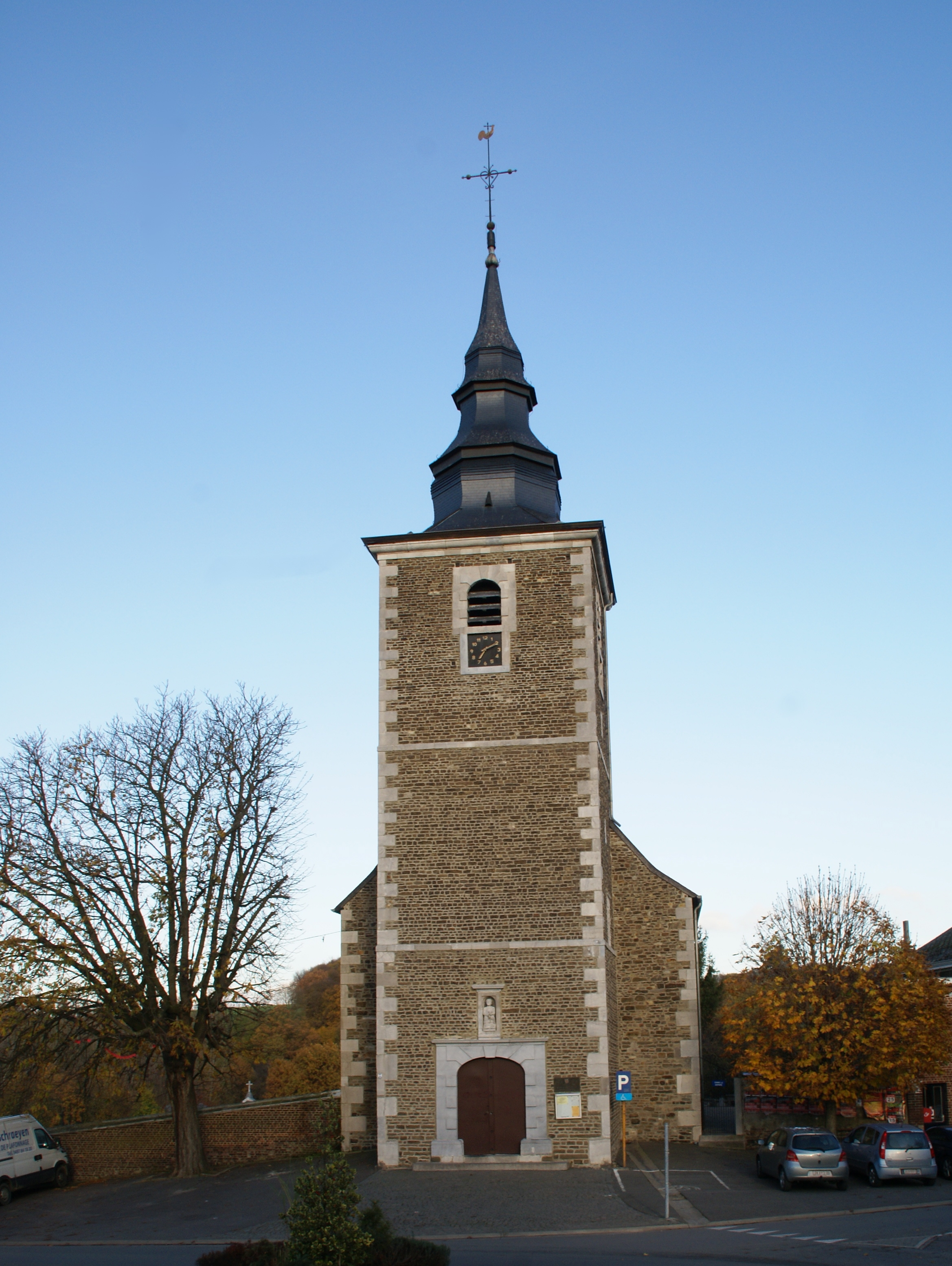 Saive (Belgium): Saint Peter's Church